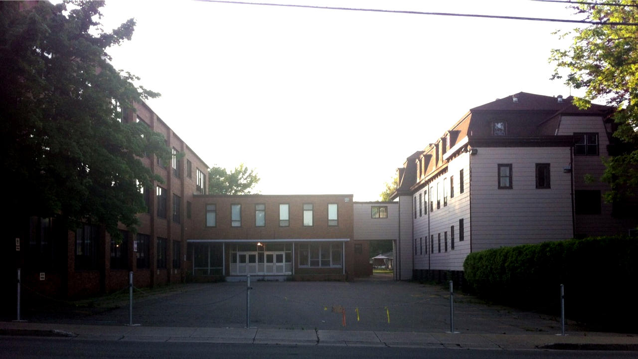 This is a photo of the main entrance to Holy Angels High School in Sydney, Nova Scotia. The school was permanently closed in June 2011. The building is for sale, and is still externally configured as it appeared in its final year.